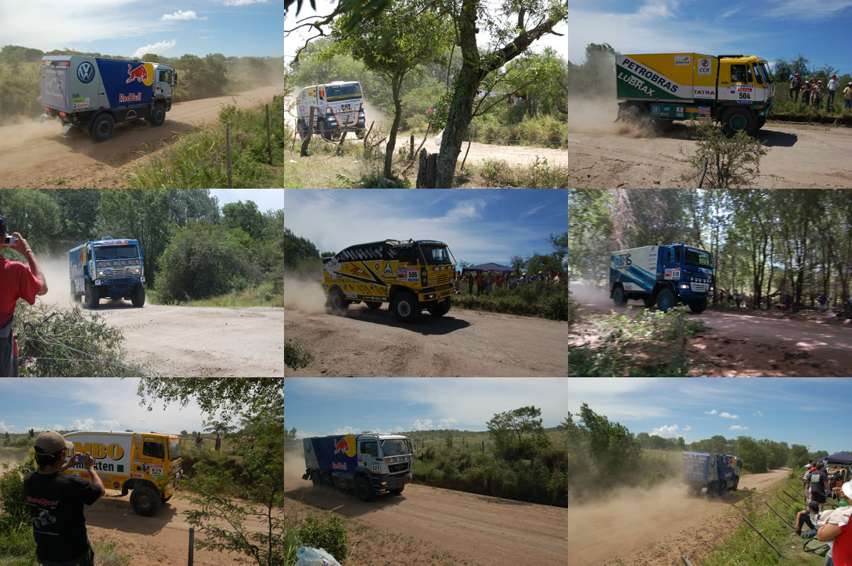 Dakar 2010. Trucks. 1ª etapa. Colón, Provincia de Buenos Aires, Argentina.